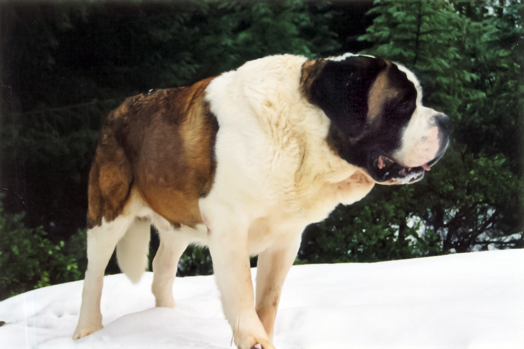 st. bernard